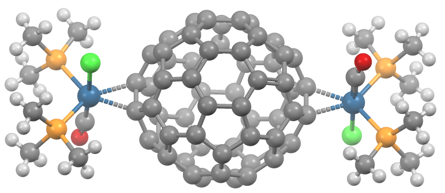 Structure of C60[IrCl(CO)(PMe3)2]2. doi=10.1021/ic00101a015